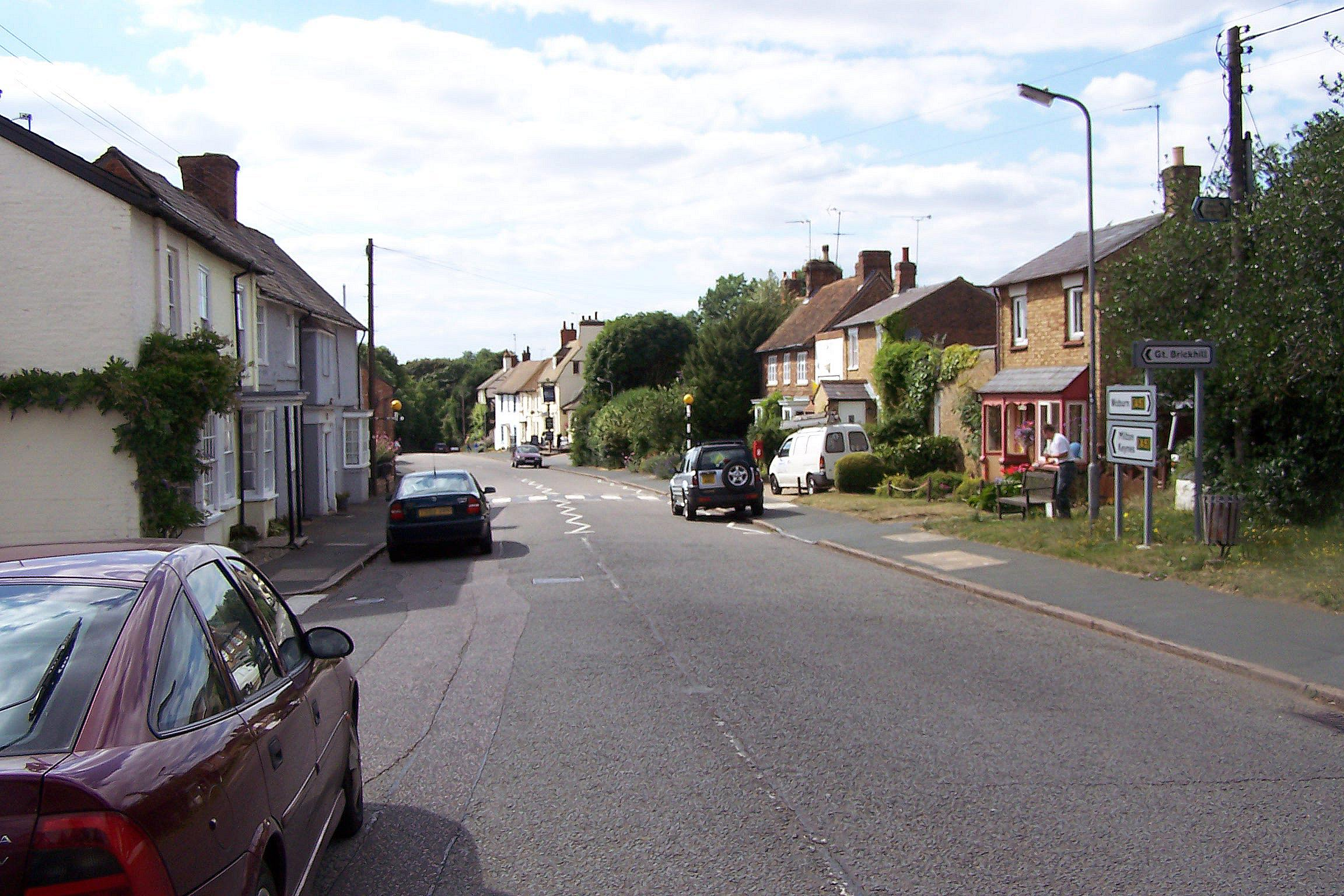 Little Brickhill in Milton Keynes, main street. Photo Cnyborg, July 2005